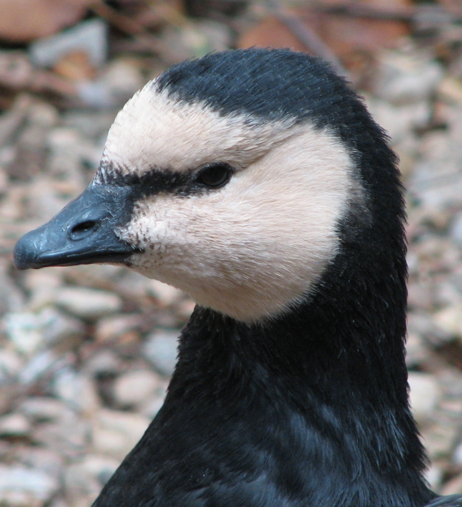 Barnacle Goose